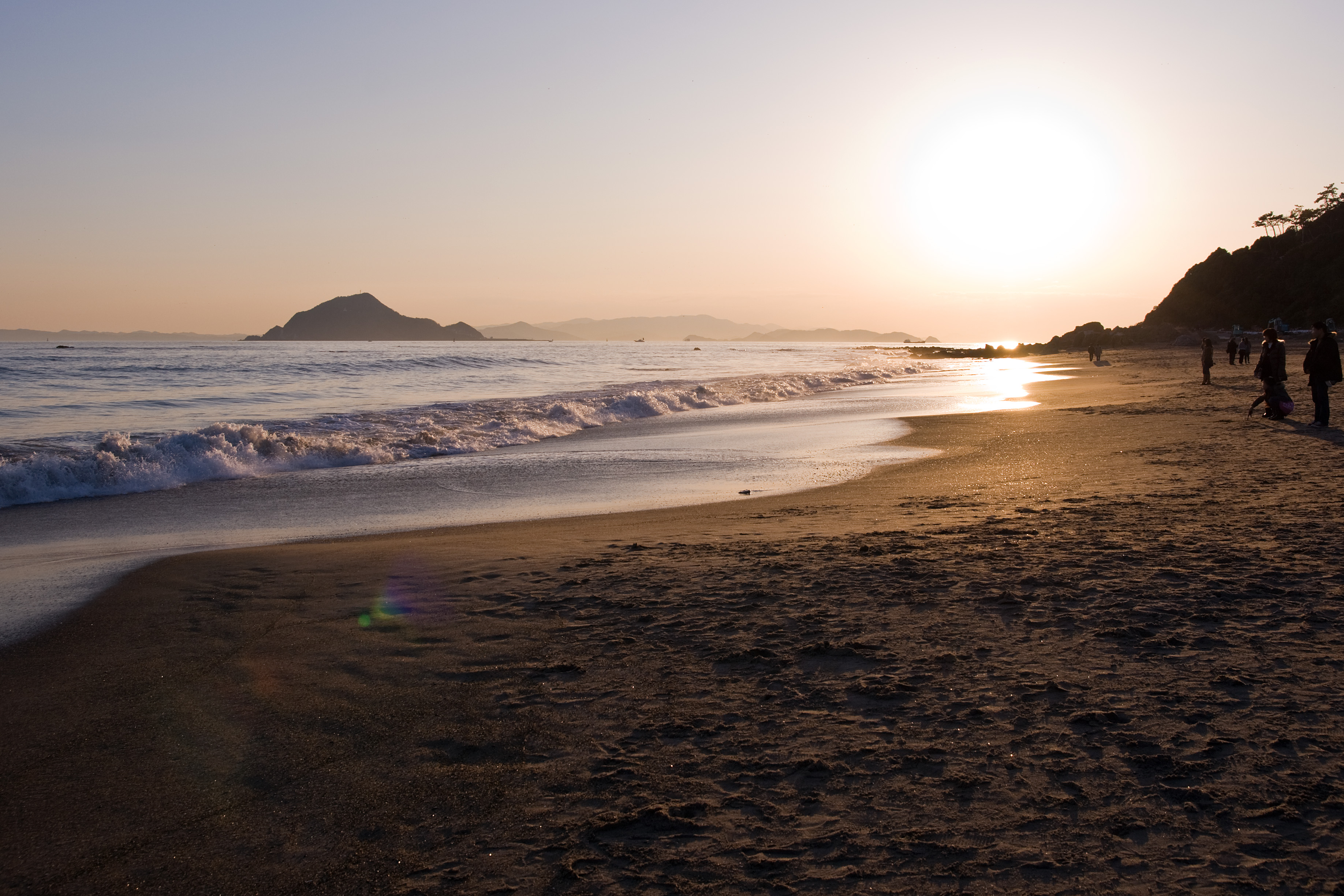 Irago Cape, Aichi Pref., Japan.